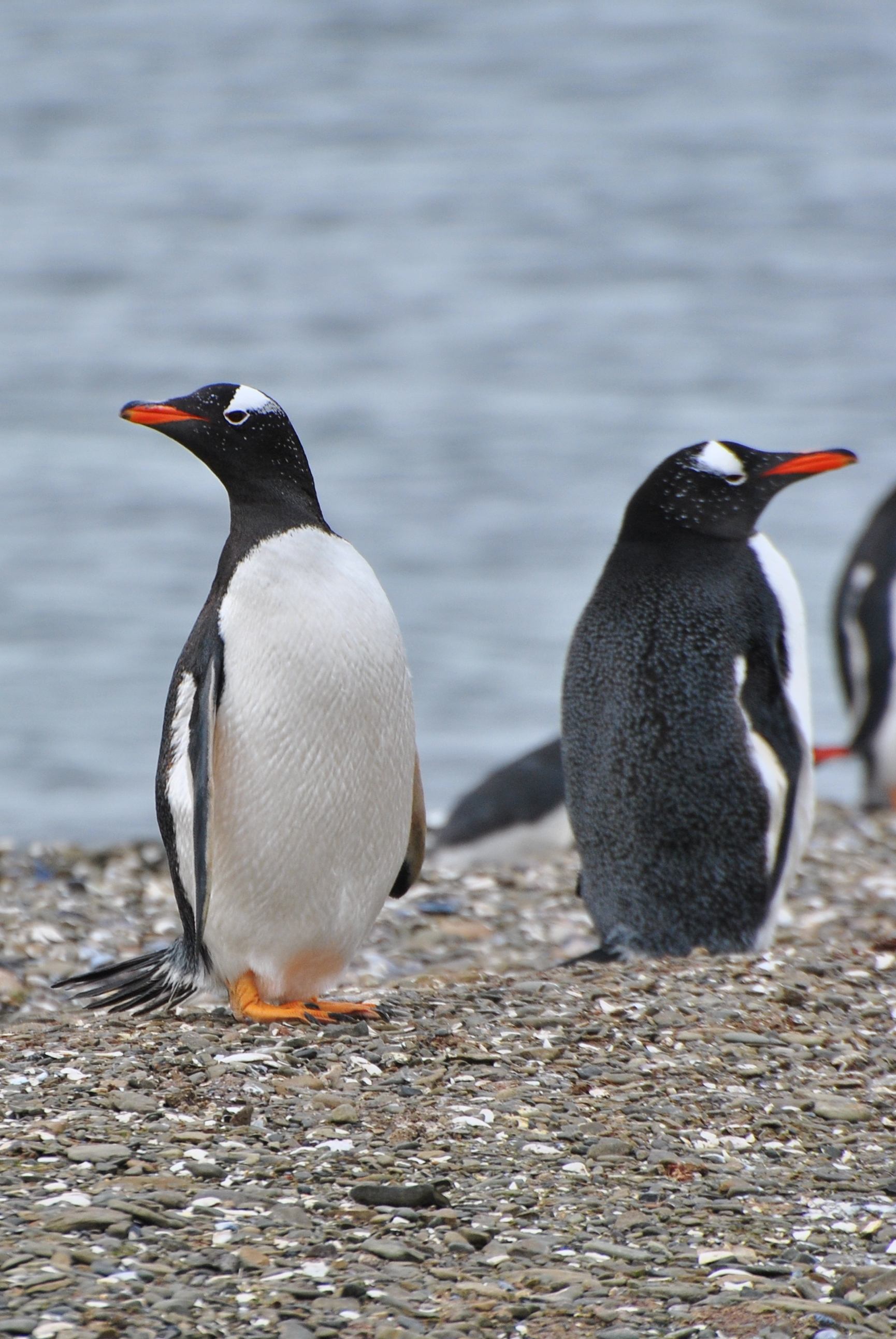 Gentoo Penguins at New Haven. I never thought I would get to see a penguin in the wild !